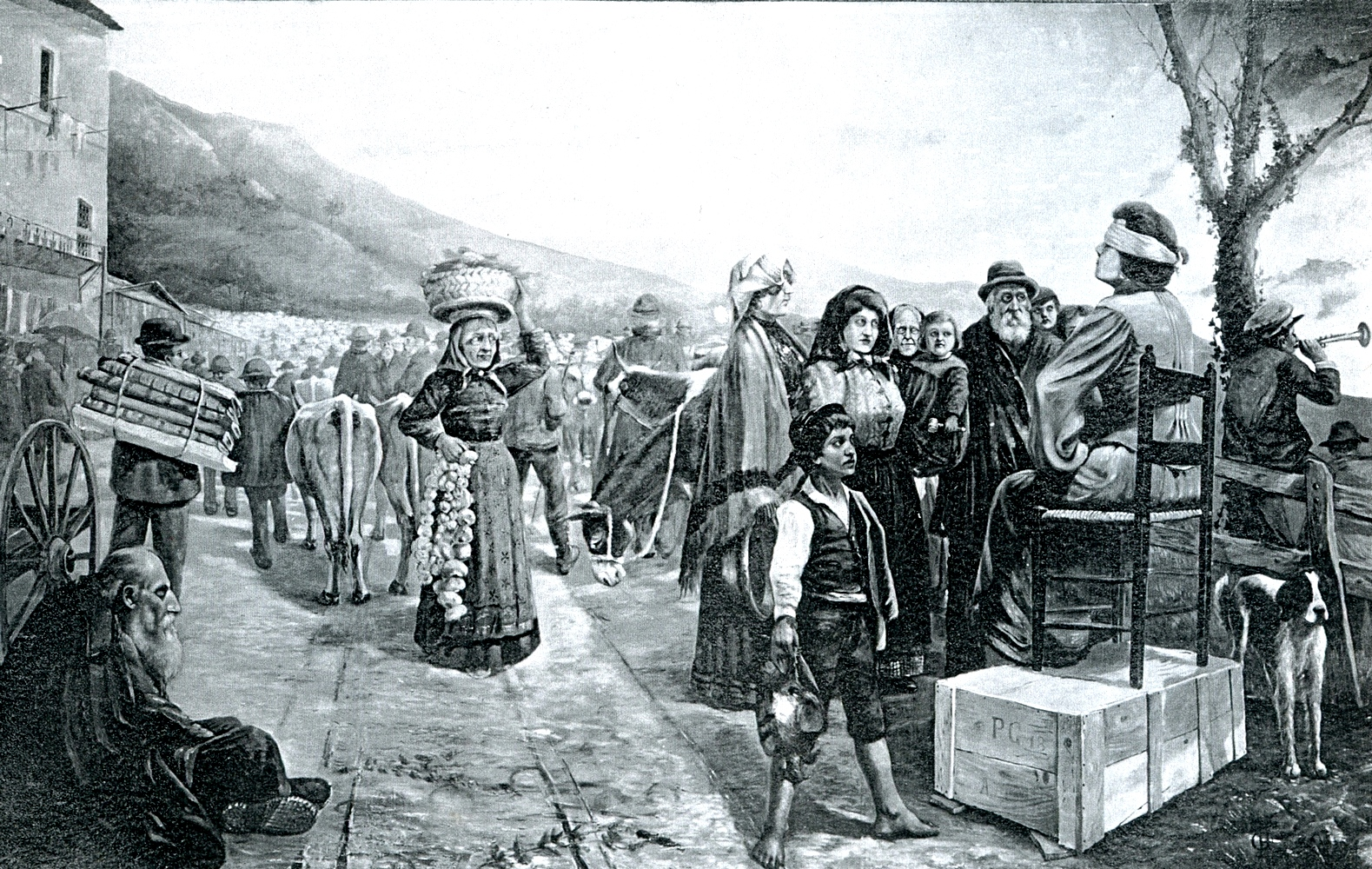 Armeno Armeni, Il farabuttismo vince sulla pietà (olio su tela 1903 m. 3,50 x 2,50)